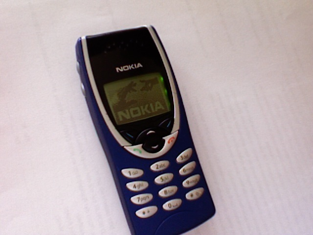 A Nokia 8210 with a blue cover